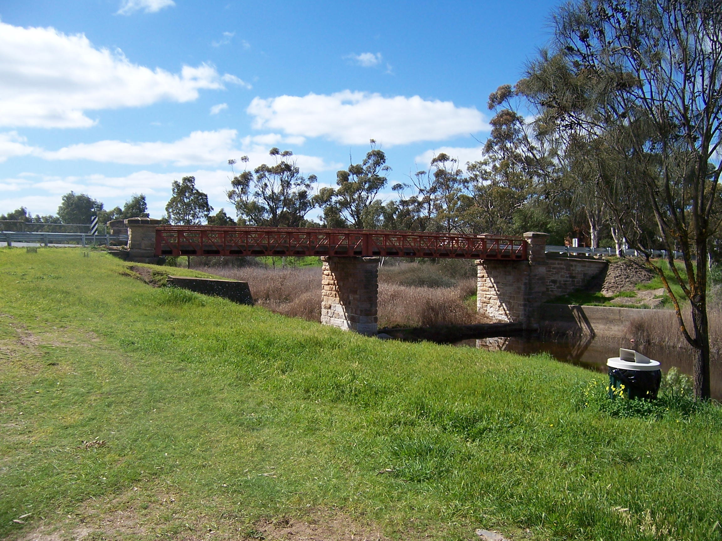 Callington Bridge Australia August 2008